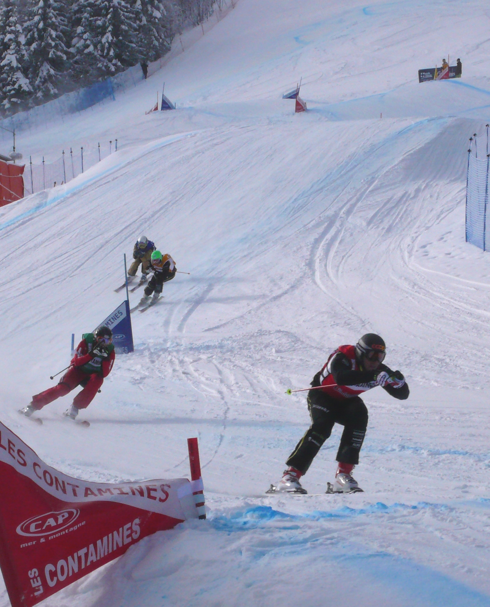 Ski Cross World Cup at Les Contamines-Montjoie, small final: Michael Schmid, Christopher Delbosco, Beni Hofer, Ted Piccard.